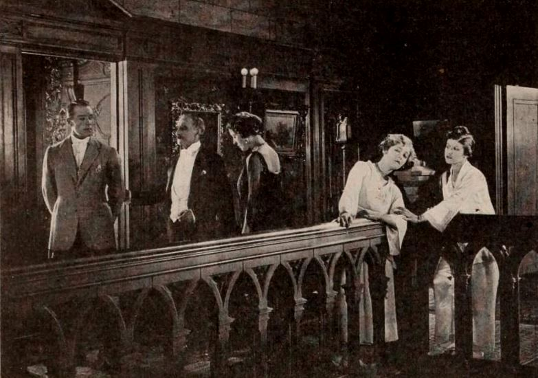 Still from the American drama film Home (1919) with Frank Elliott, John Cossar, Clarissa Selwynne, Mildred Harris, and Helen Yoder, on page 64 of the July 19, 1919 Exhibitors Herald.